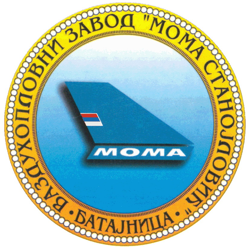 Aeronautical plant "Moma Stanojlovic" logo